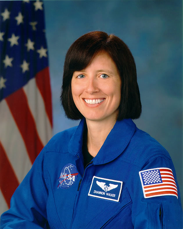 Astronaut Shannon Walker